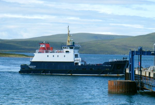 The Orkney Ferries vessel MV Thorsvoe appraoching Houton. IMO Number: 9014743 MMSI Number: 235018907 Callsign: MNLY8 Length: 35 m Beam: 9 m